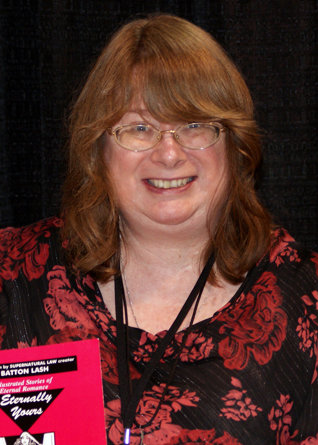 Janet L. Hetherington attending the Calgary Comic & Entertainment Expo in BMO Centre, Calgary, Alberta, Canada.